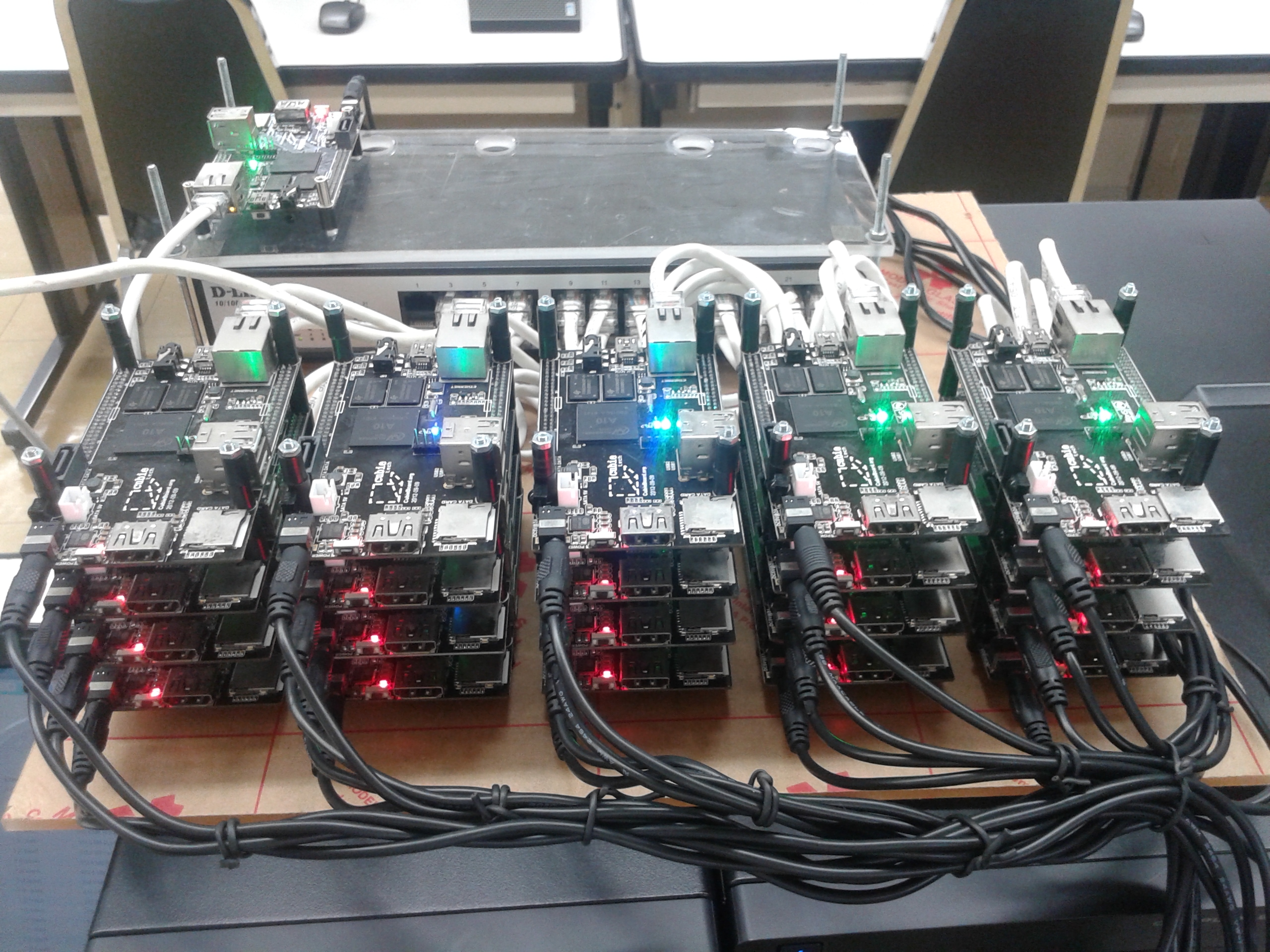 The first Aiyara cluster, A0. Pictured by Chanwit Kaewkasi.